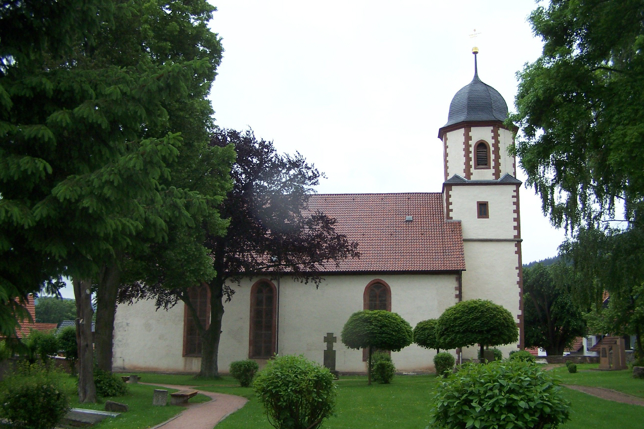 The evangelic church in Dermbach.